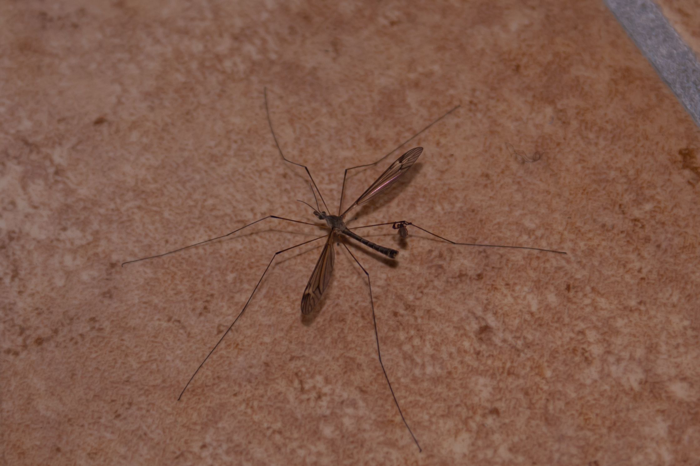 A pseudoscorpion on the leg of a Crane fly